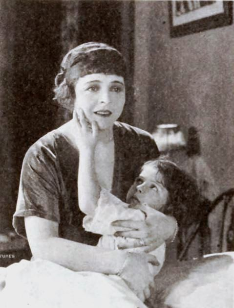 Still for the American film Dangerous Curve Ahead (1921) with Helene Chadwick and child actor Robert DeVilbiss (1915 – 1973), on page 68 of the March 26, 1921 Exhibitors Herald.